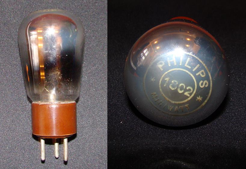 Rectifying diode 1802.